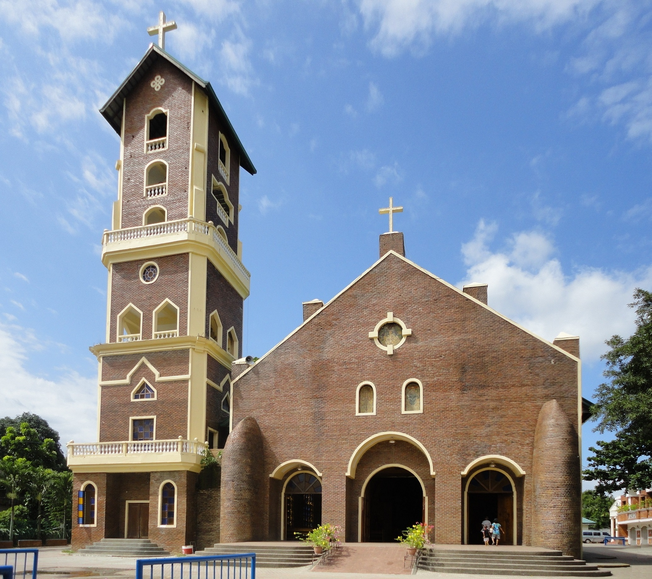 Our Lady of Piat Church in October 2013